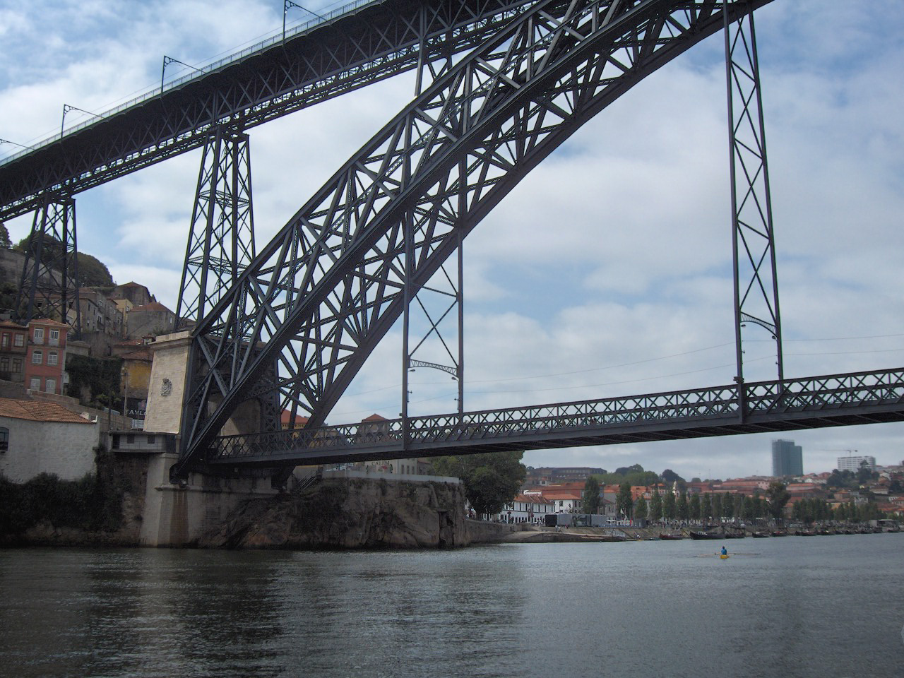 Ponte Maria Pia; bridge over the Douro river in Porto, Portugal